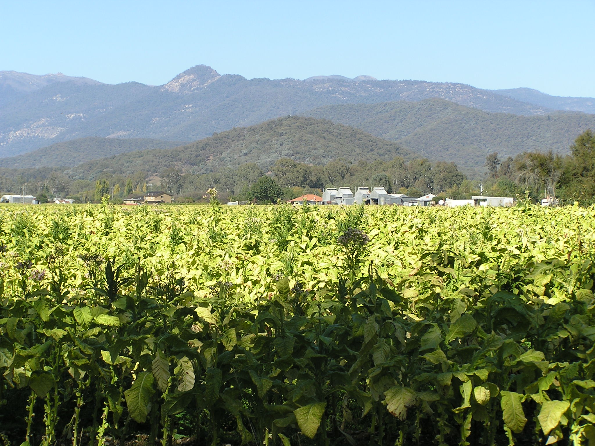 Myrtleford, Victoria, April 2005; looking across tobacco crop to drying kilns and the Mount Buffalo National Park in the distance.